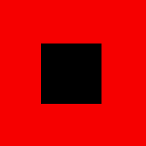 Centered black square in red square to create Storm warning or Tropical Storm Warning flag